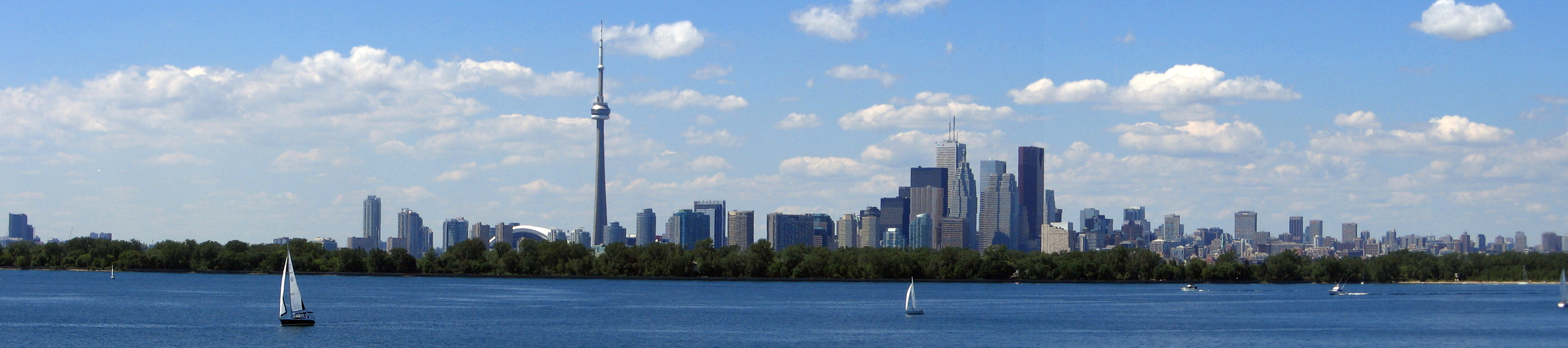 The Toronto skyline, seen from Tommy Thompson park